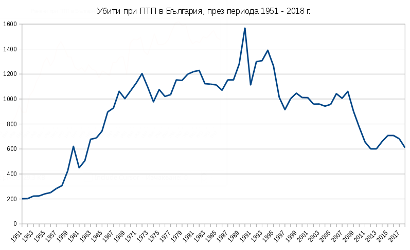 Number of deaths in car accidents in Bulgaria, in 1951 - 2018.